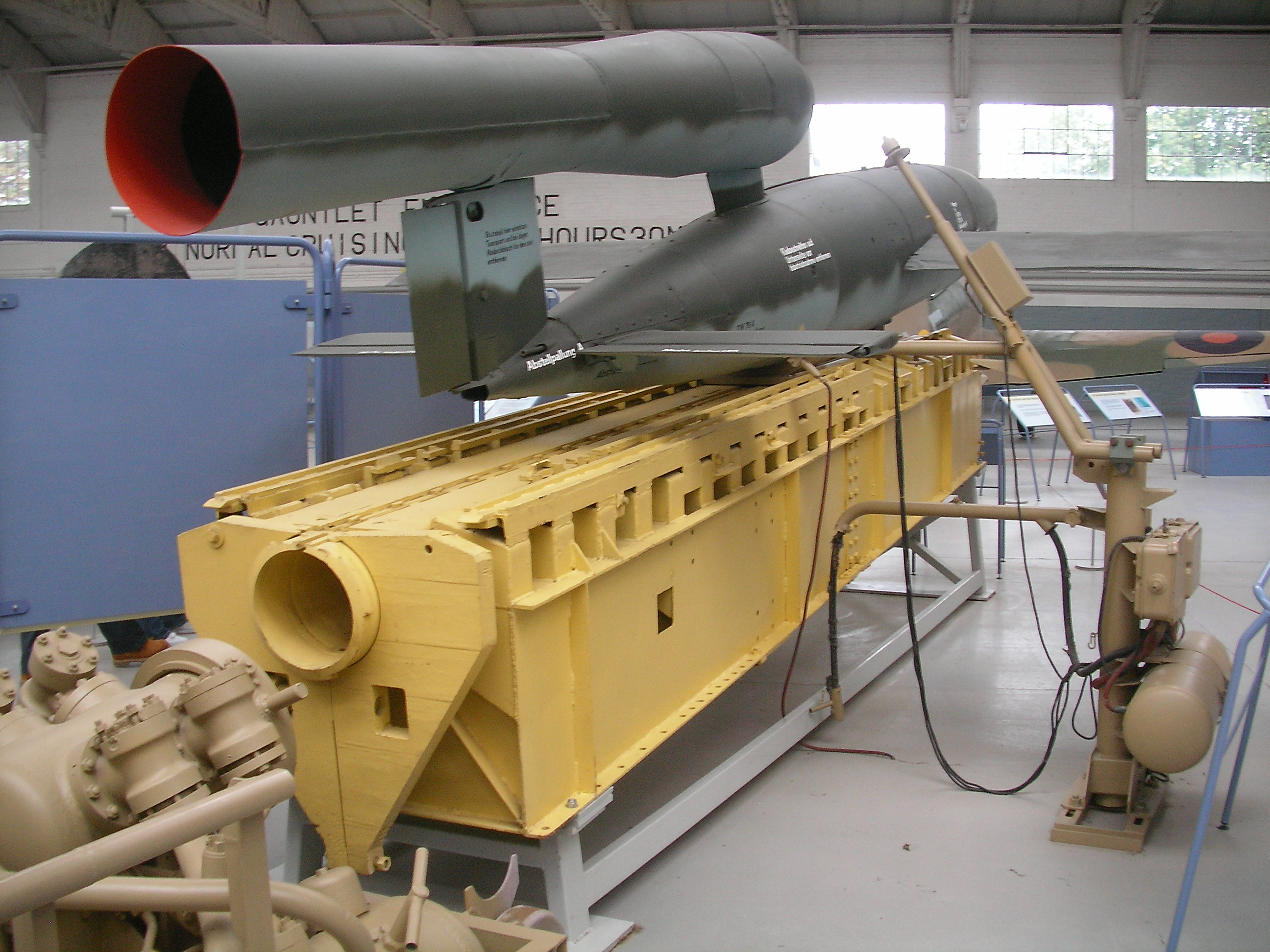 Shown from rear to show workings of small section of launch ramp